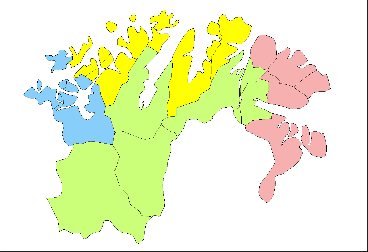 Map of Church of Norway deaneries in Finnmark county, NorwayNorsk bokmål: Kart over prostier i Finnmark fylke